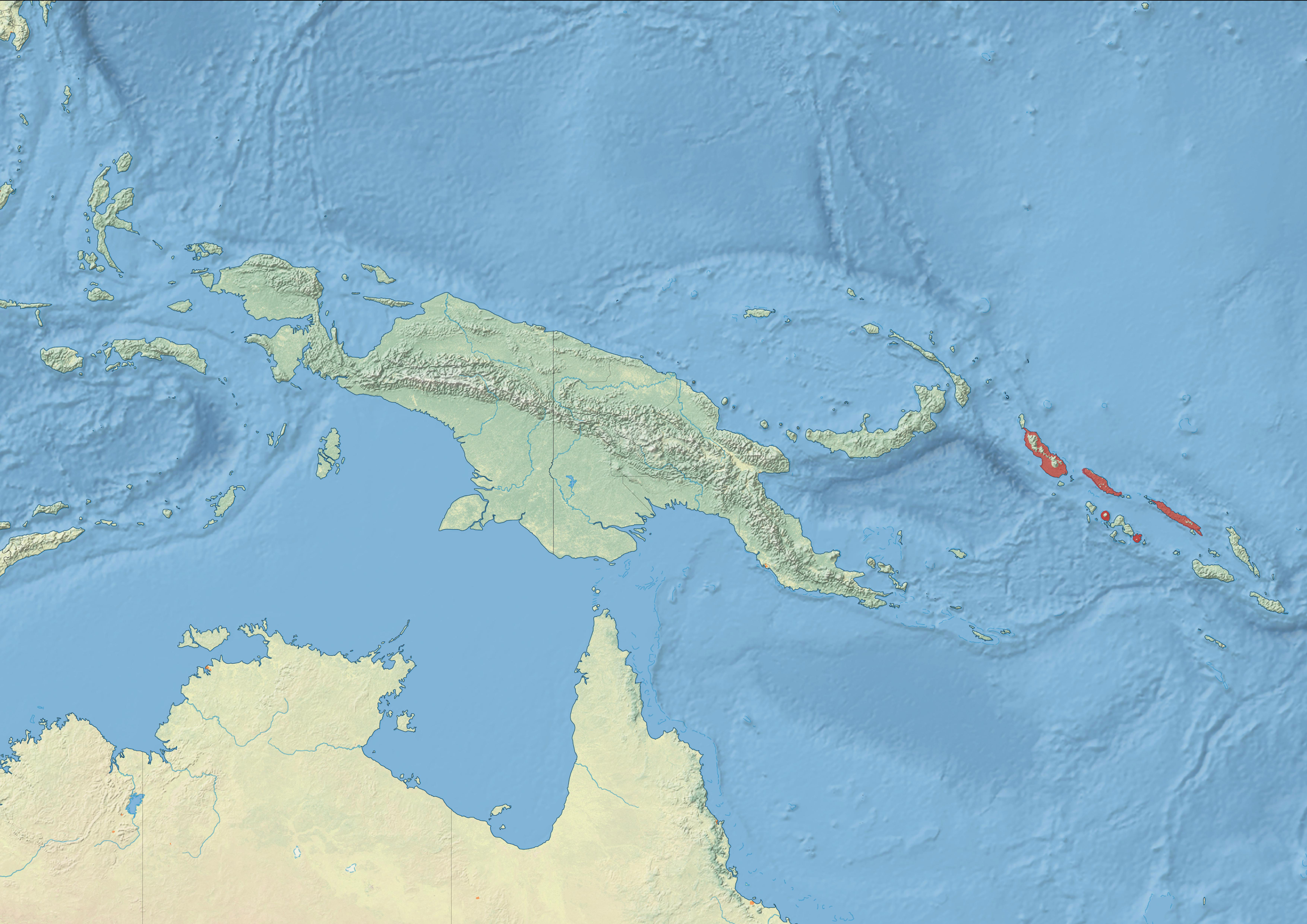 The IUCN Distribution of Black-faced Pitta Maroon = Resident Purple = Breeding Orange = Non-breeding Hatched = Passage Grey = Possibly Extinct Blue = Introduced